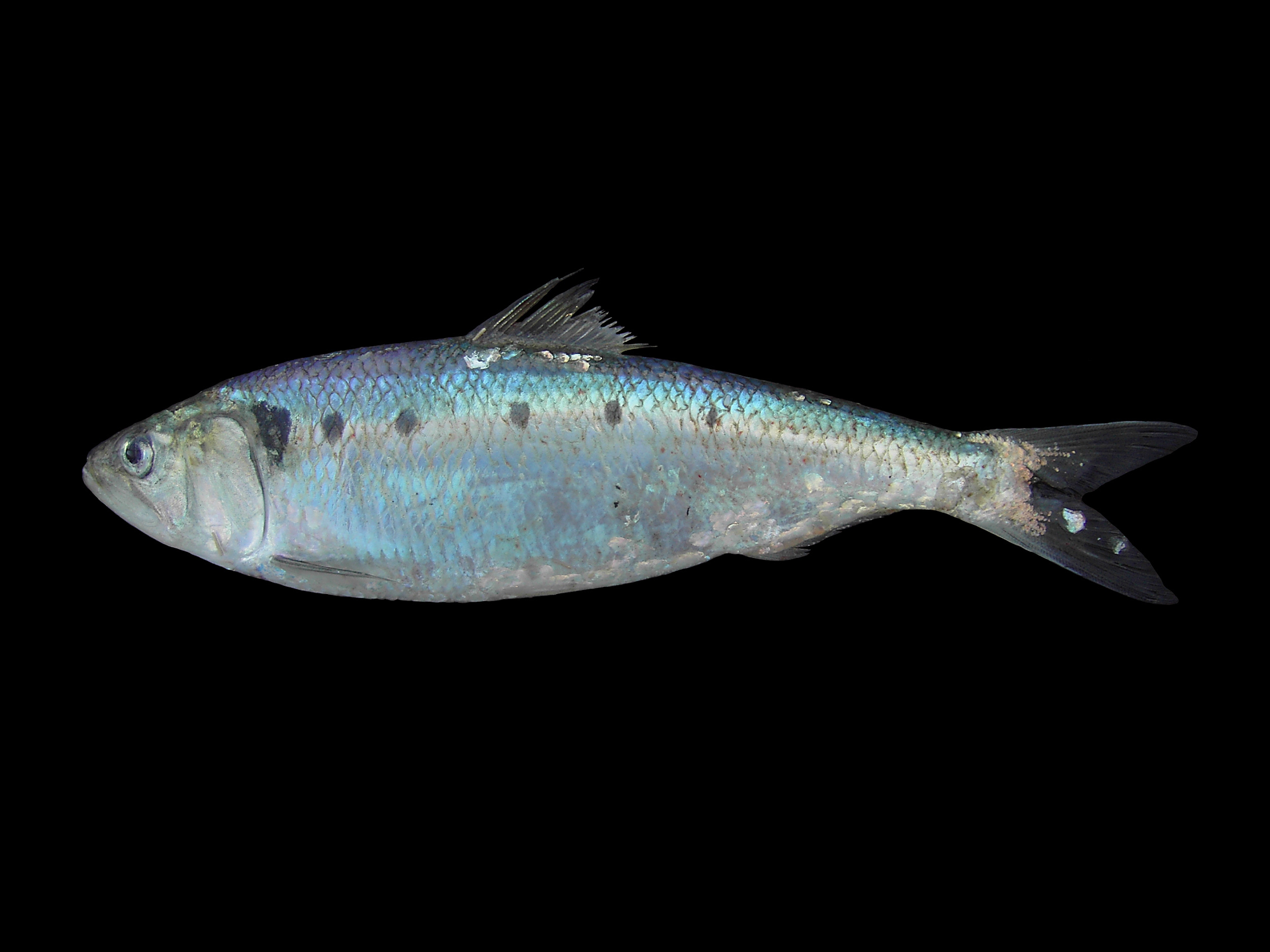 Twaid shad. Image taken in the lab on board of RV Belgica at Westdiep.